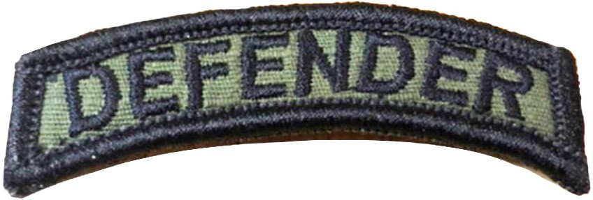 The “Defender” tab is an unofficial patch that, after 9/11, recognizes Security Forces Airmen who have actively participated in ground combat operations.